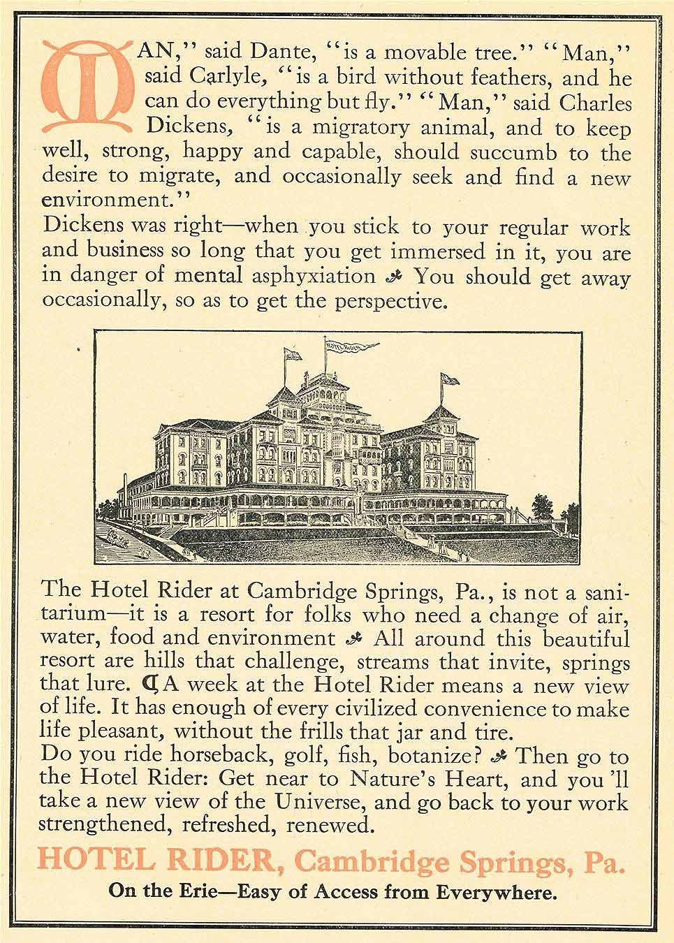 Advertisement for the Hotel Rider, circa 1900.